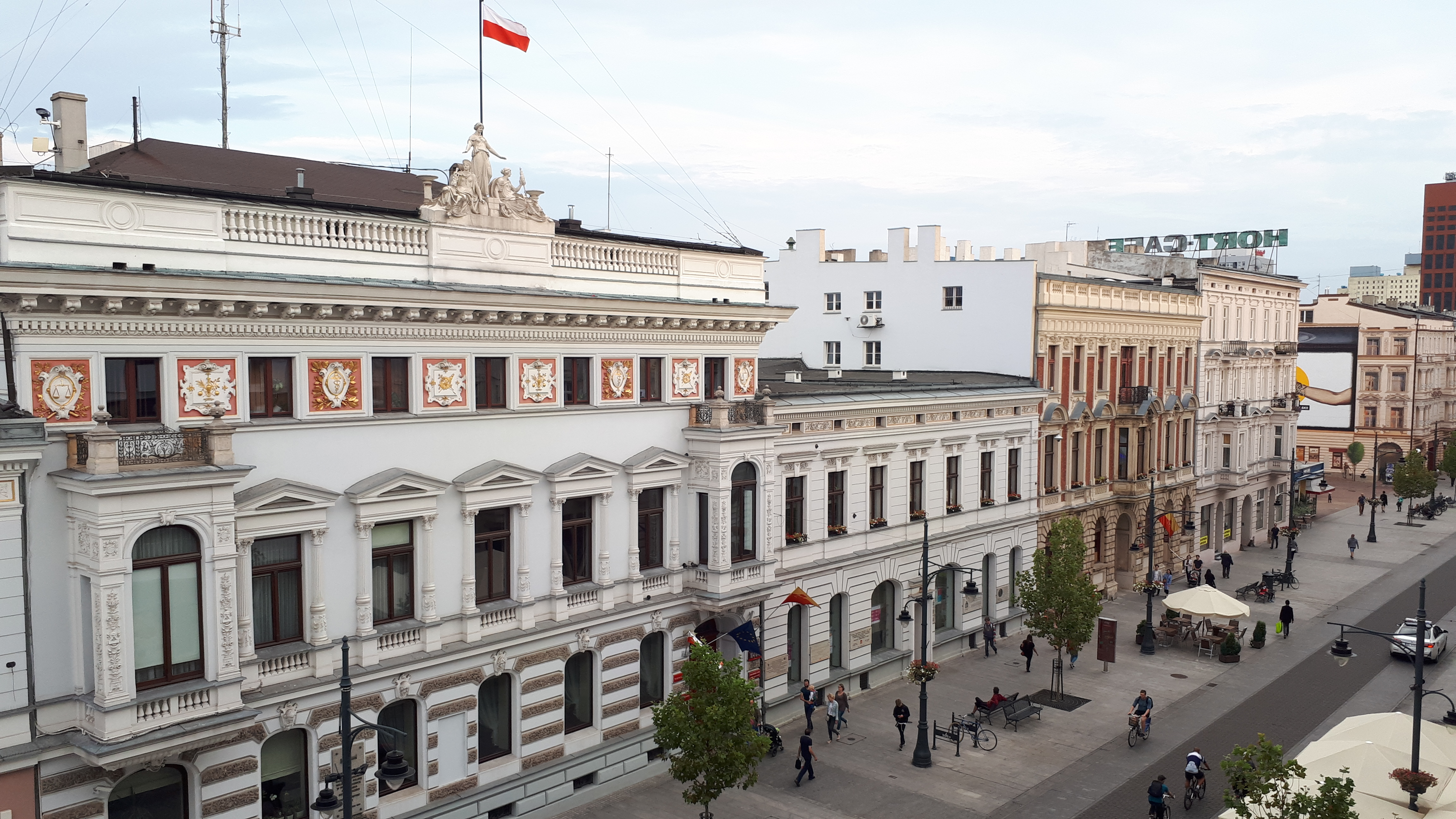 Pałac Juliusza Heinzla, September 2018